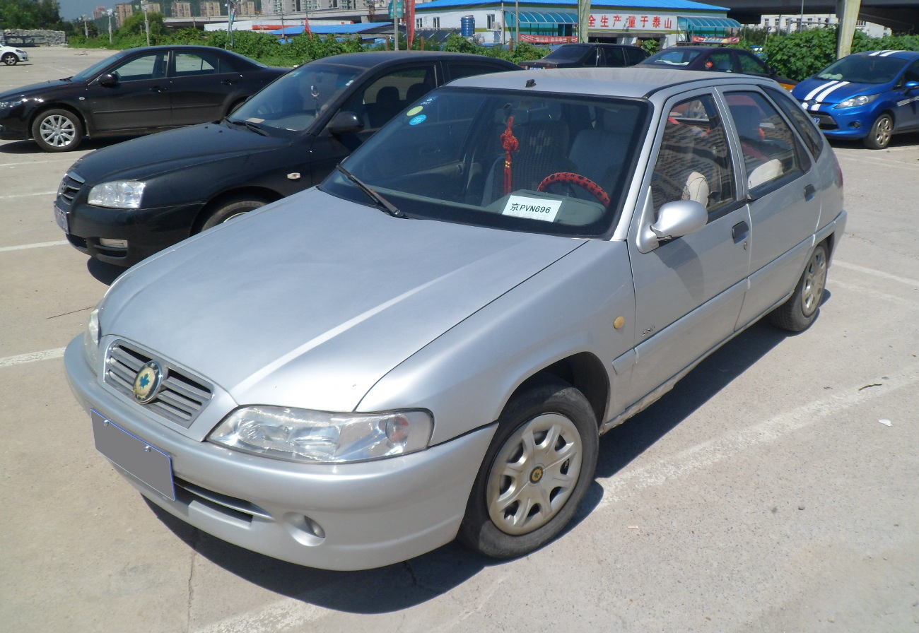 Shanghai Maple Biaofeng photographed in Beijing, China.